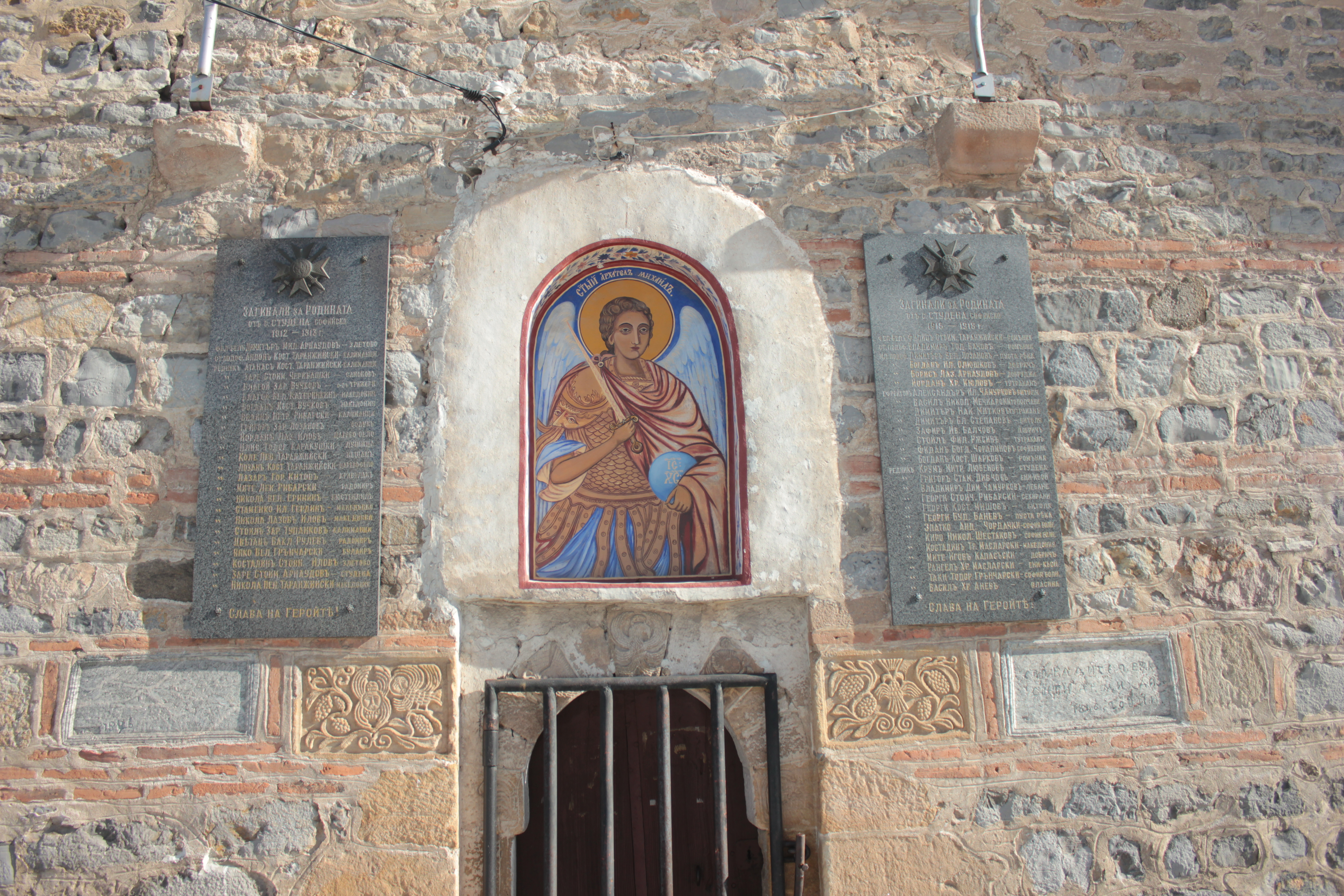 Studena War memorial Plates